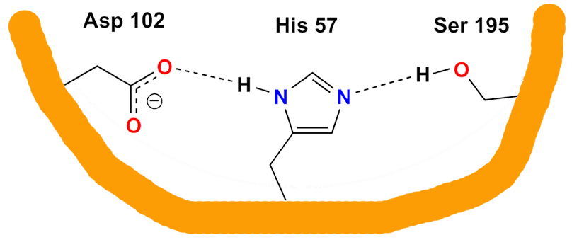 Cataytic triad of chymotrypsin enzyme